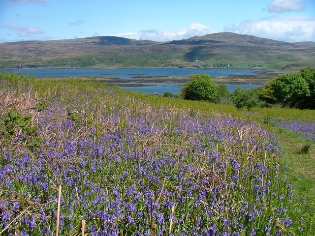 "Bluebells, Ulva. I'd always thought bluebells were a woodland species but certainly in this part of Scotland they bask in profusion in the May sunshine. Taking advantage before the bracken grows." Overlooking Loch Tuath at Ardalum. Isle of Ulva, Inner Hebrides.